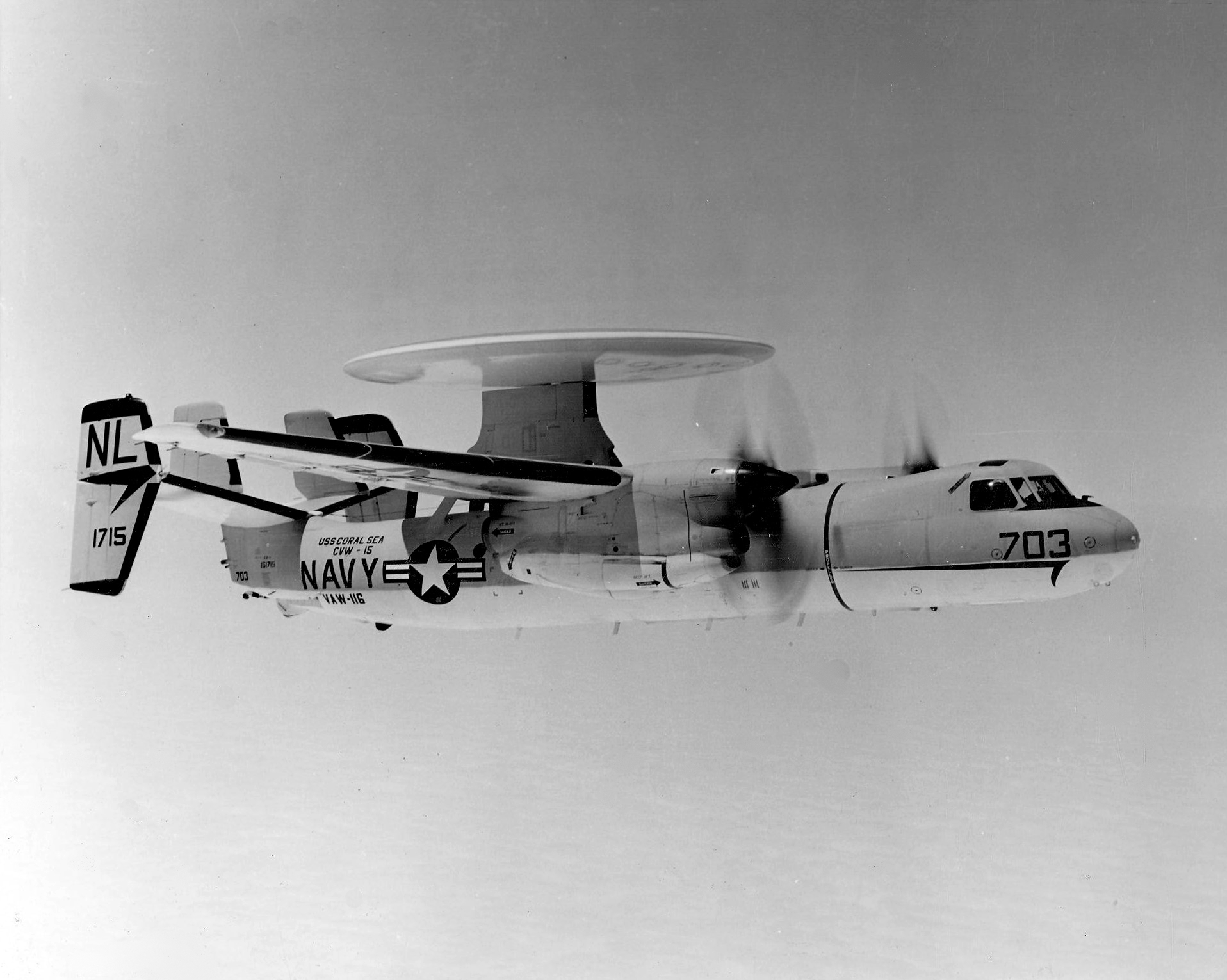 A U.S. Navy Grumman E-2A Hawkeye (BuNo 151715) of Airborne Early Warning Squadron VAW-116 in flight. VAW-116 was assigned to Carrier Air Wing 15 (CVW-15) aboard the aircraft carrier USS Coral Sea (CVA-43) for a deployment to Vietnam from 26 July 1967 to 8 April 1968.